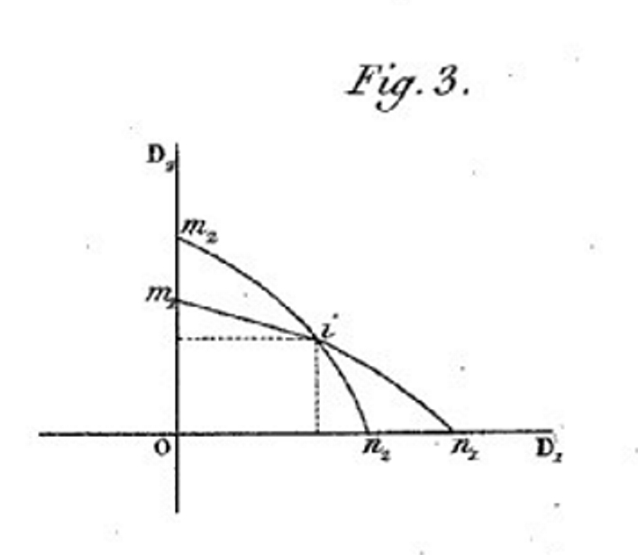 Of the competition of producers, 1838